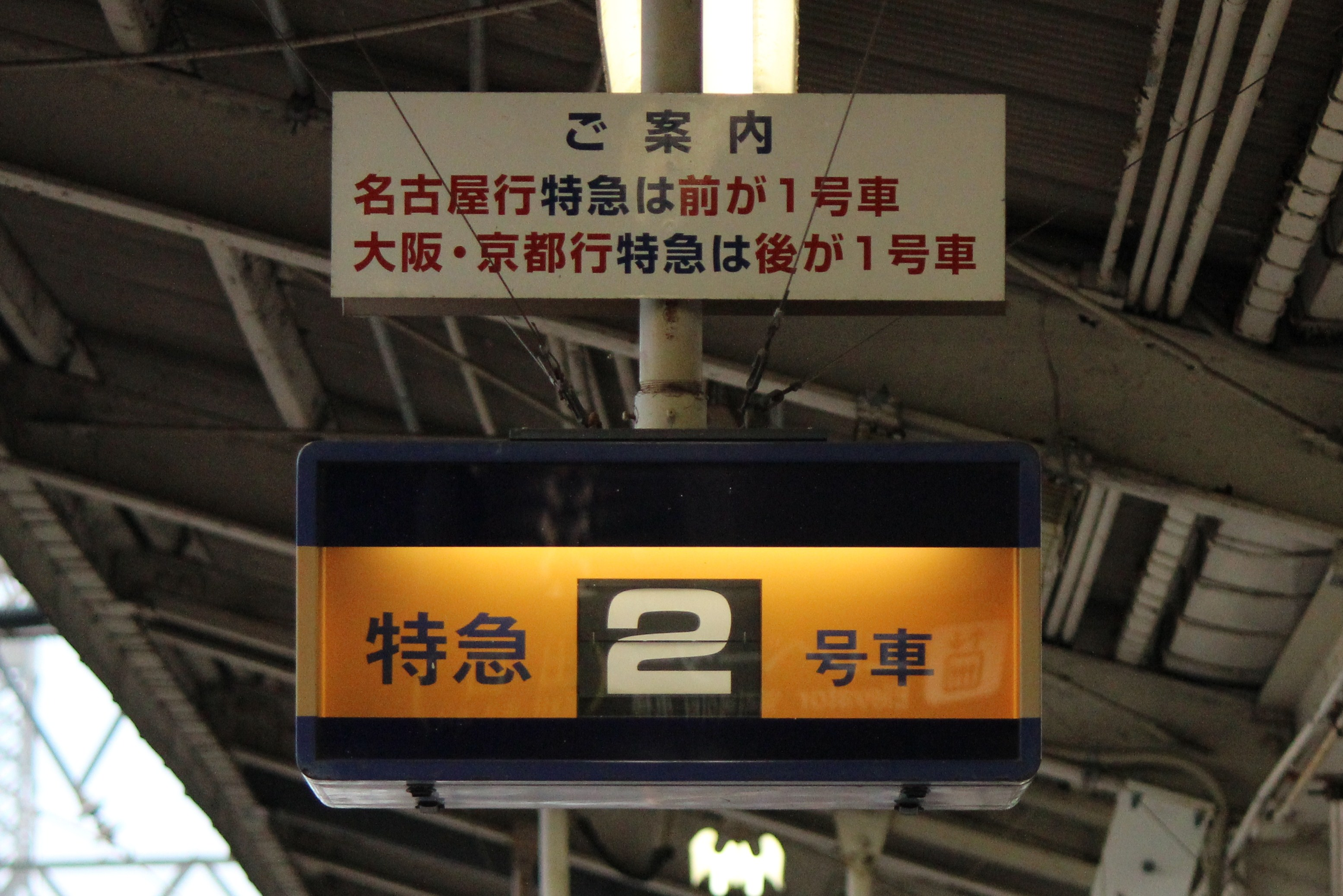 Car number indicator for limited express trains at Kintetsu Matsusaka Station